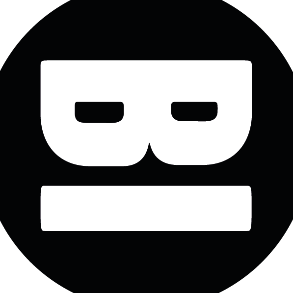 A symbol that represents the Portuguese online literary Feuilleton that was published between March and May 2020, to which over 40 writers and 40 artists contributed during the global pandemic of Covid-19.